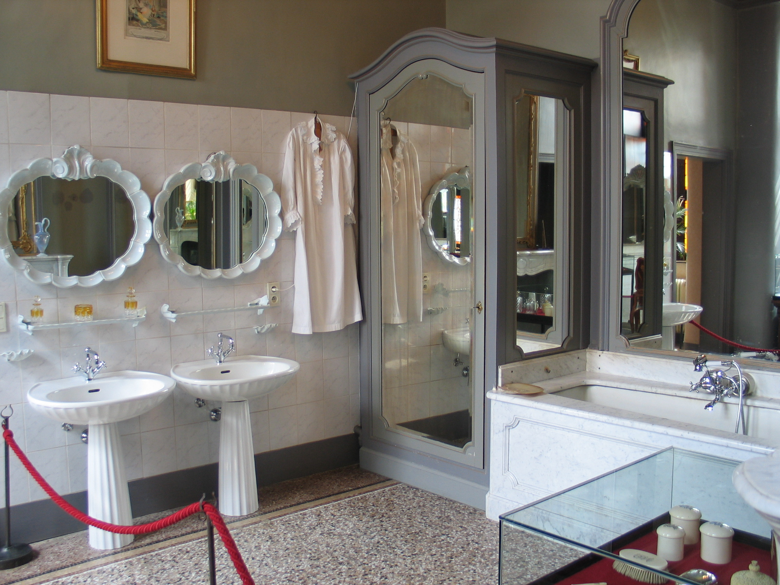 Historical bathroom, Castle of Gaasbeek, Belgium